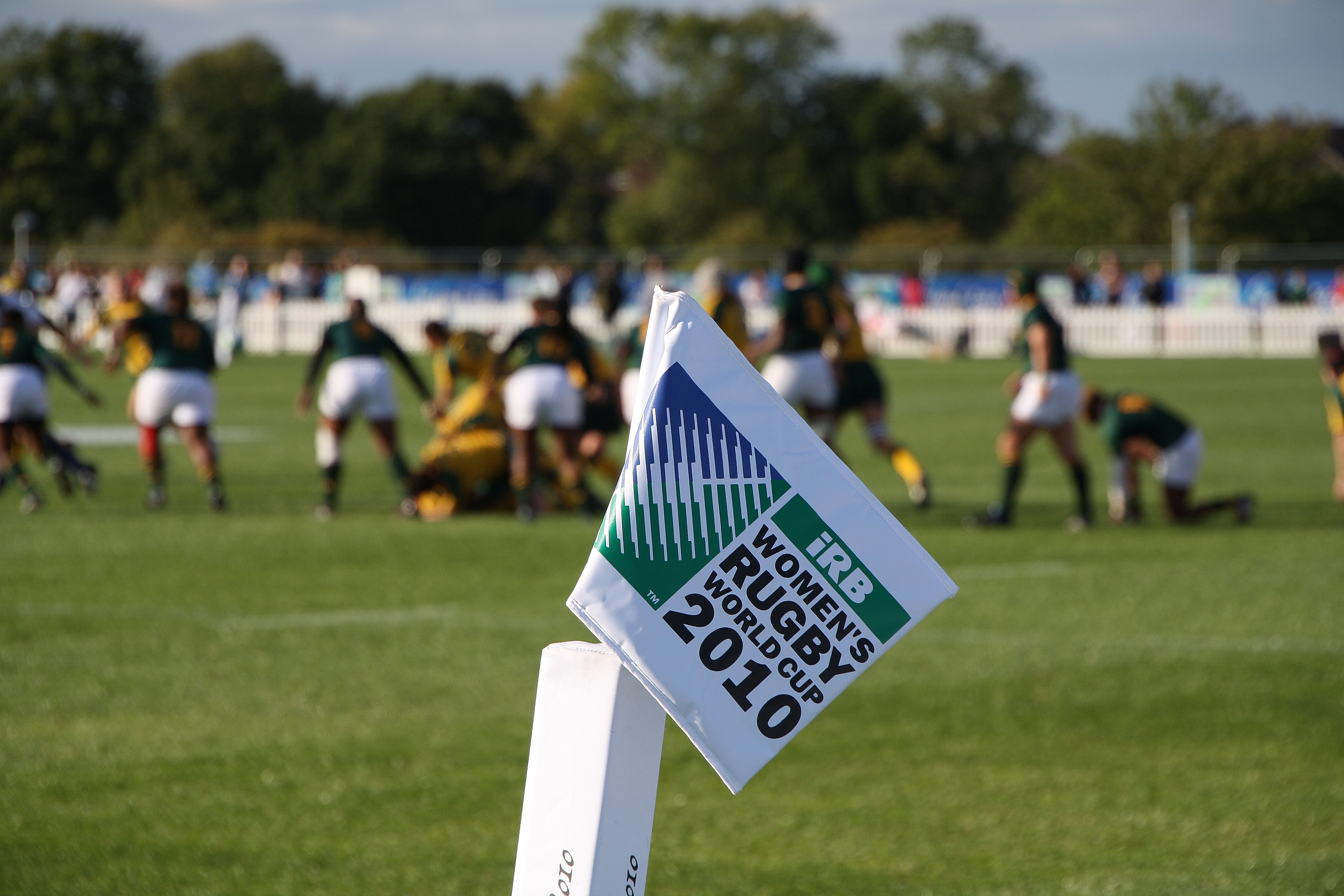 Womens Rugby World Cup - Guildford 2010 - The 2010 Women's Rugby World Cup was the sixth edition of the Women's Rugby World Cup and was being held in England